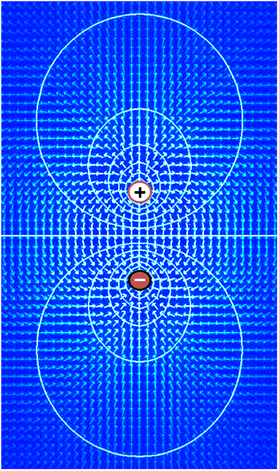 Electric dipole A physical dipole with charge, equipotentials and electric fields indicated. Generated by [1]. 11:25, 12 December 2005 Wiki Tiki God 502x866 (126993 bytes) (The image originally from "Dipole", but made smaller so that it is easier to see the relevant parts.) 14:18, 20 September 2005 Salsb 1013x1100 (1950556 bytes) (A physical dipole with charge, equipotentials and electric fields indicated.)